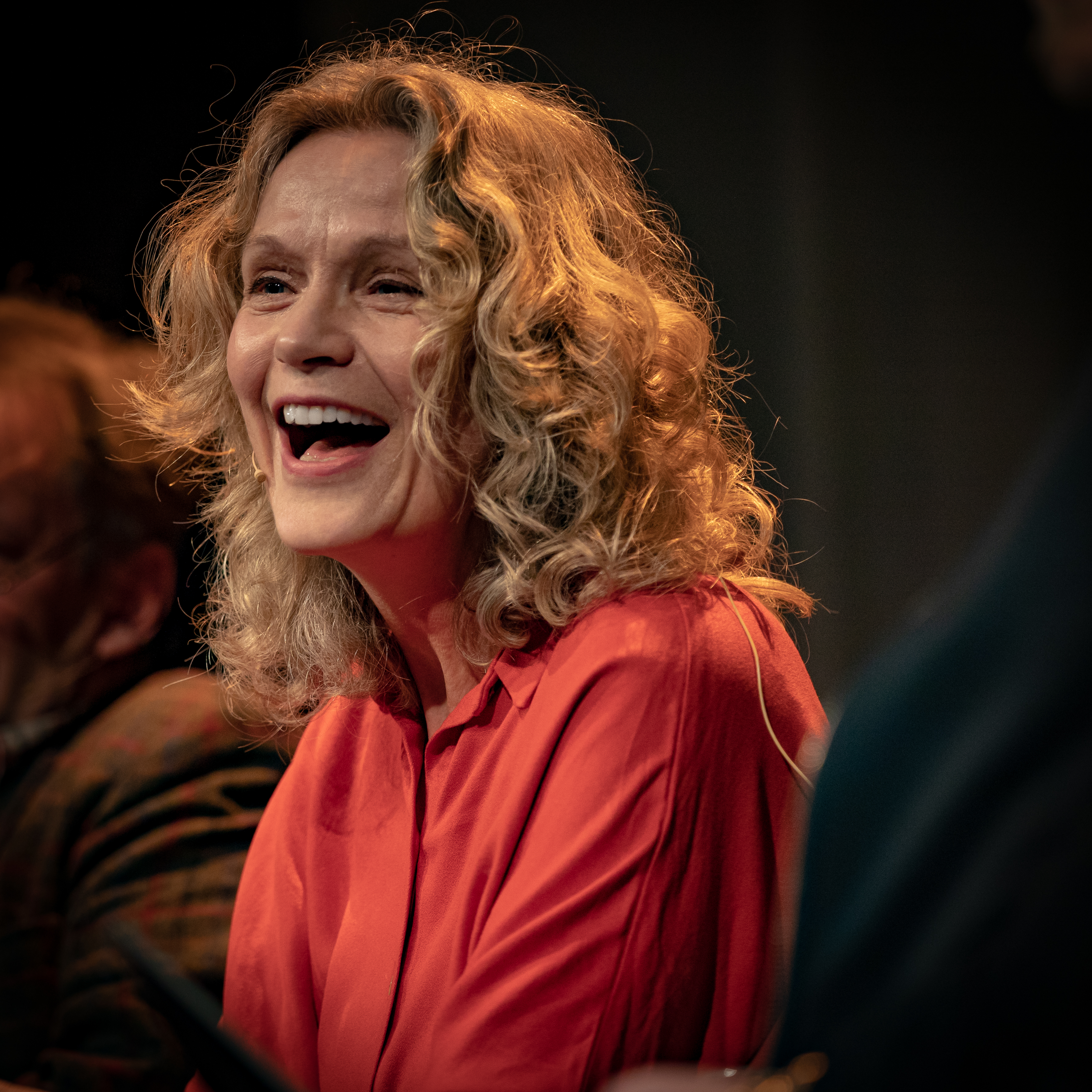 Swedish philosopher Åsa Wikforss at the Gothenburg City theatre, February 2019